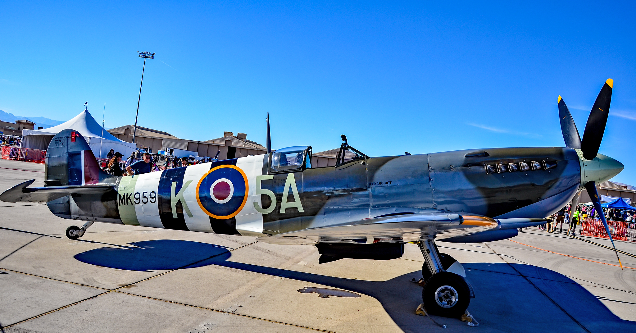 Aviation Nation 2017 Las Vegas - Nellis AFB (LSV / KLSV) USA - Nevada, November 11, 2017 Photo: TDelCoro